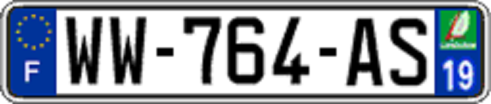 Provisional license plate from France, WW = Provisional, 19 = Corrèze department